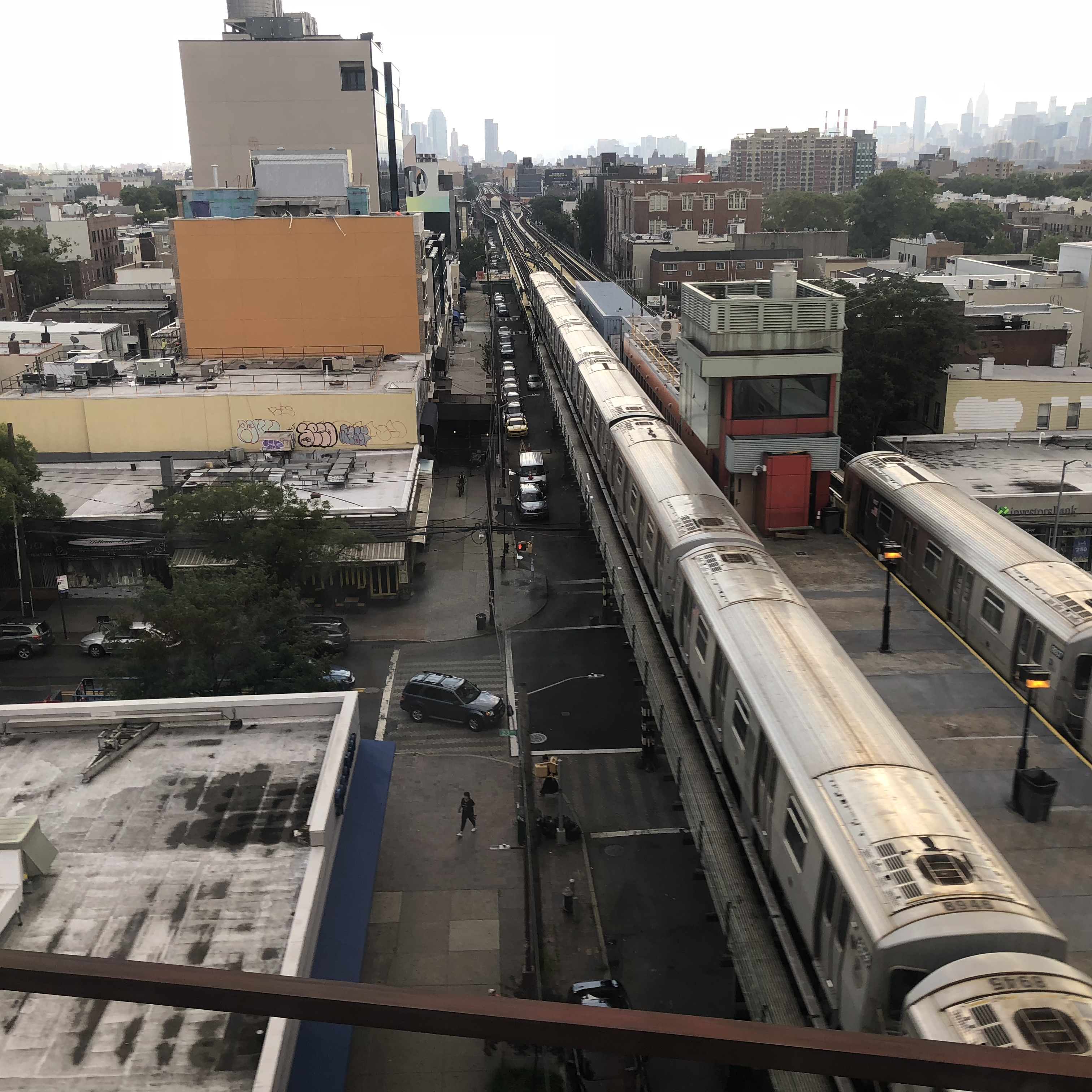 South end of the Astoria–Ditmars Boulevard (BMT Astoria Line) station from above, taken from Amtrak train 2165 on the New York Connecting Railroad viaduct in Queens, New York.